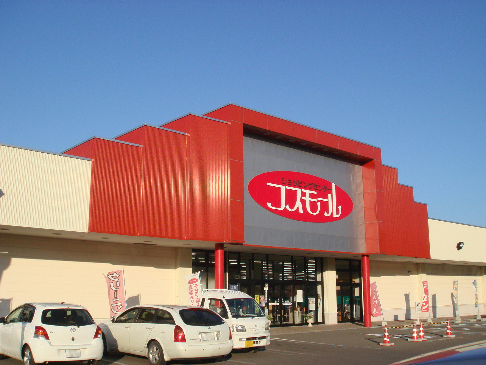 Michinoeki (Roadside Station) Cosmall Taiki in Taiki Town, Hokkaido, Japan